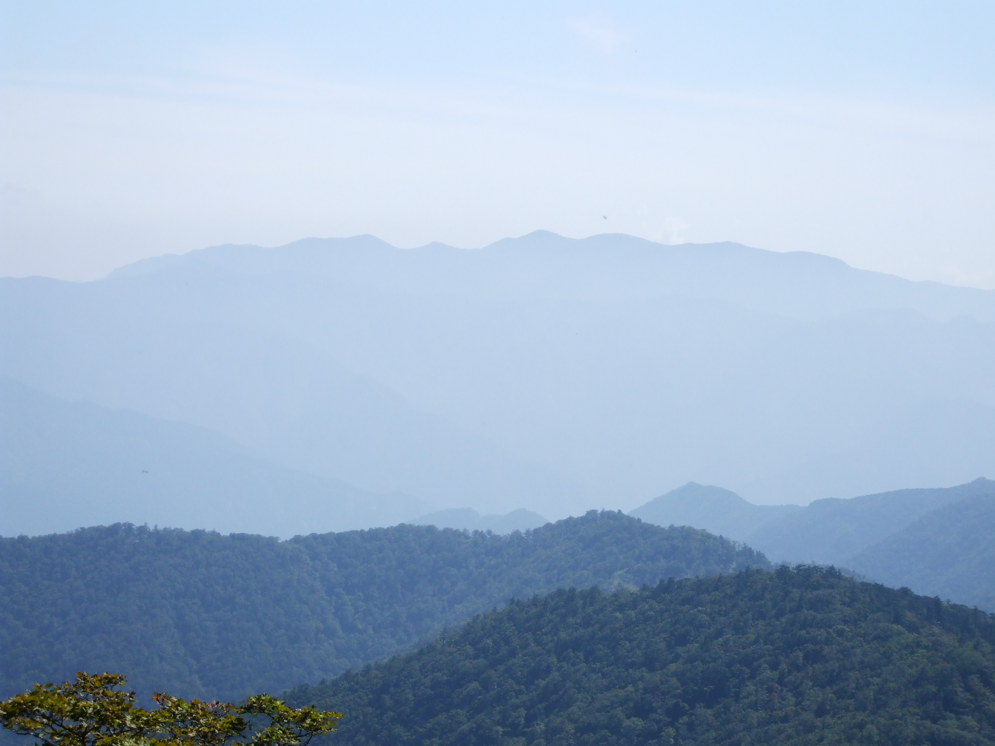 West side of Mount Odaigahara seen from Mount Misen in Honshu, Japan.